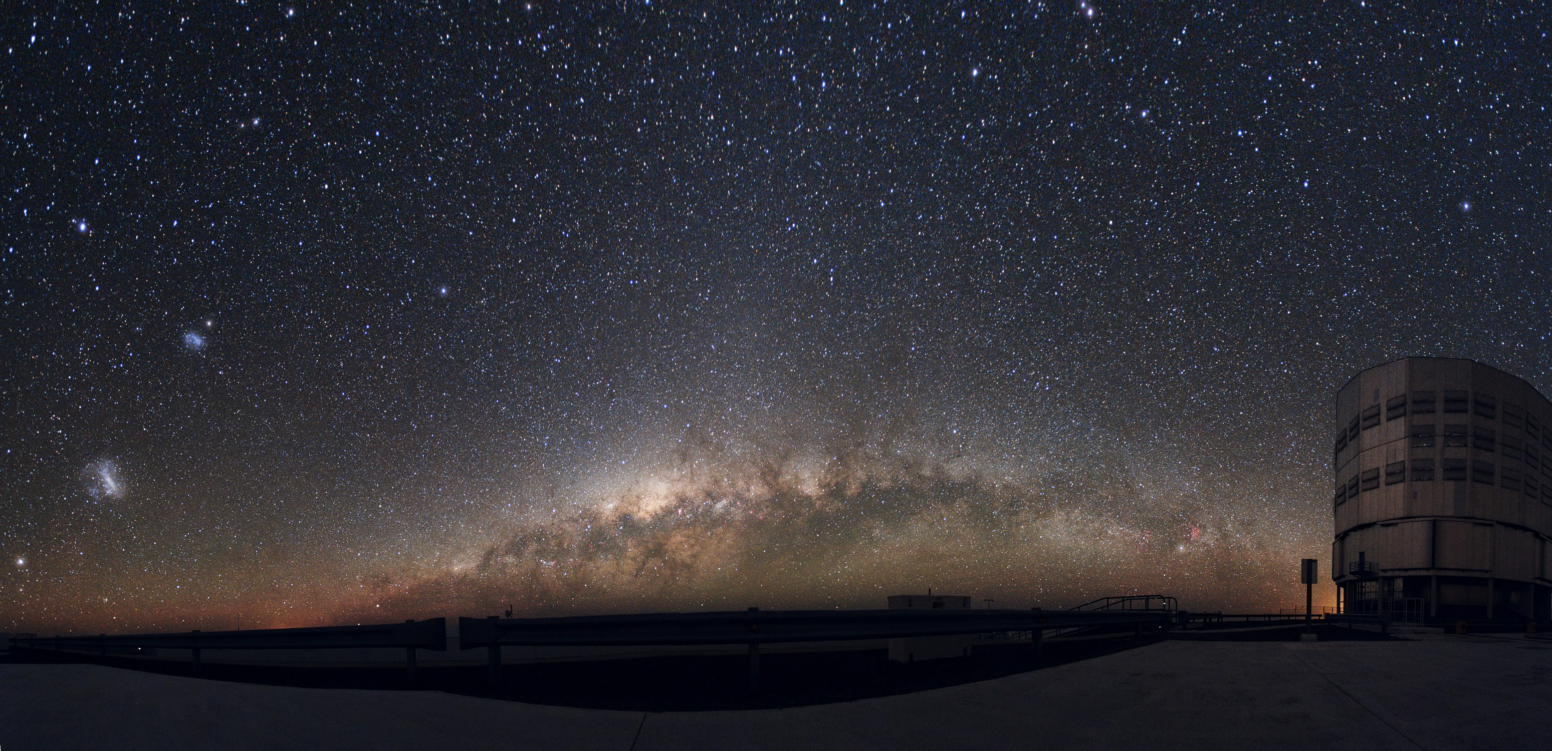 Deep in the Chilean Atacama Desert, far from sources of light pollution and other people-related disturbances, there is a tranquil sky like few others on Earth. This is the site for the European Southern Observatory's Very Large Telescope, a scientific machine at the cutting-edge of technology. In this panoramic photograph, the Large and Small Magellanic Clouds — satellite galaxies of our own — glow brightly on the left, while the VLT’s Unit Telescope 1 stands vigil on the right. Appearing to bridge the gap between them is the Milky Way, the plane of our own galaxy. The seemingly countless stars give a sense of the true scale of the cosmos. Every night ESO astronomers rise to the challenge of studying this vista to make sense of the Universe. This awe-inspiring image was taken by ESO Photo Ambassador Yuri Beletsky. Born in Belarus, Yuri now lives in Chile where he works as an astronomer. The dark skies above the Atacama Desert provide him with splendid opportunities to reveal the majesty of our cosmos, which he is keen to share. Links ESO Photo Ambassadors page